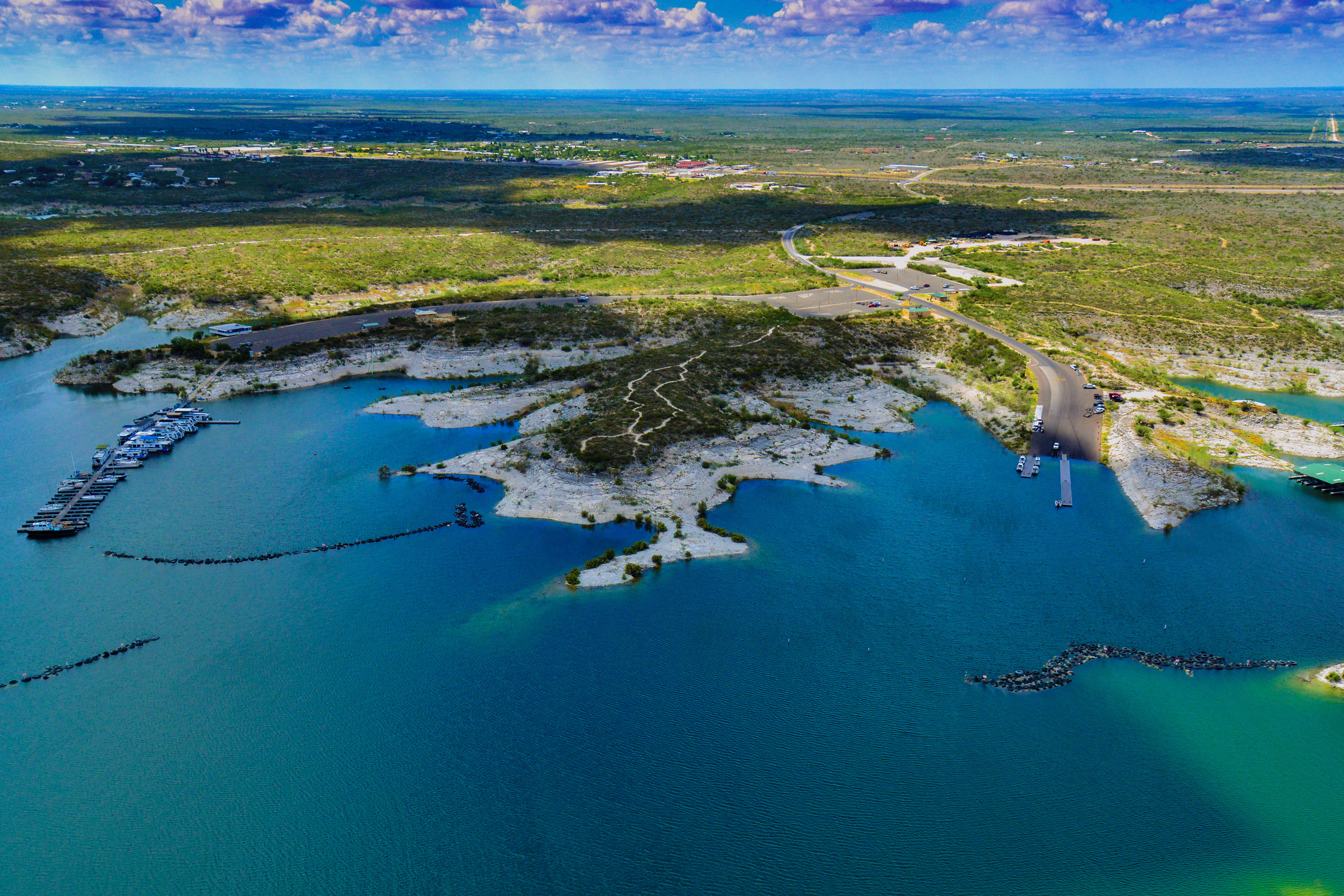 Amistad Lake - Aerial View